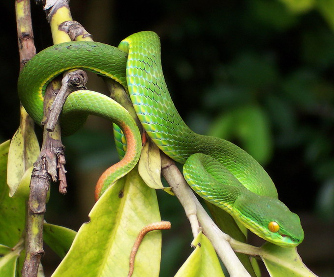 Trimeresurus albolabris (syn. Cryptelytrops albolabris) male from Situgede, Bogor, West Java, Indonesia